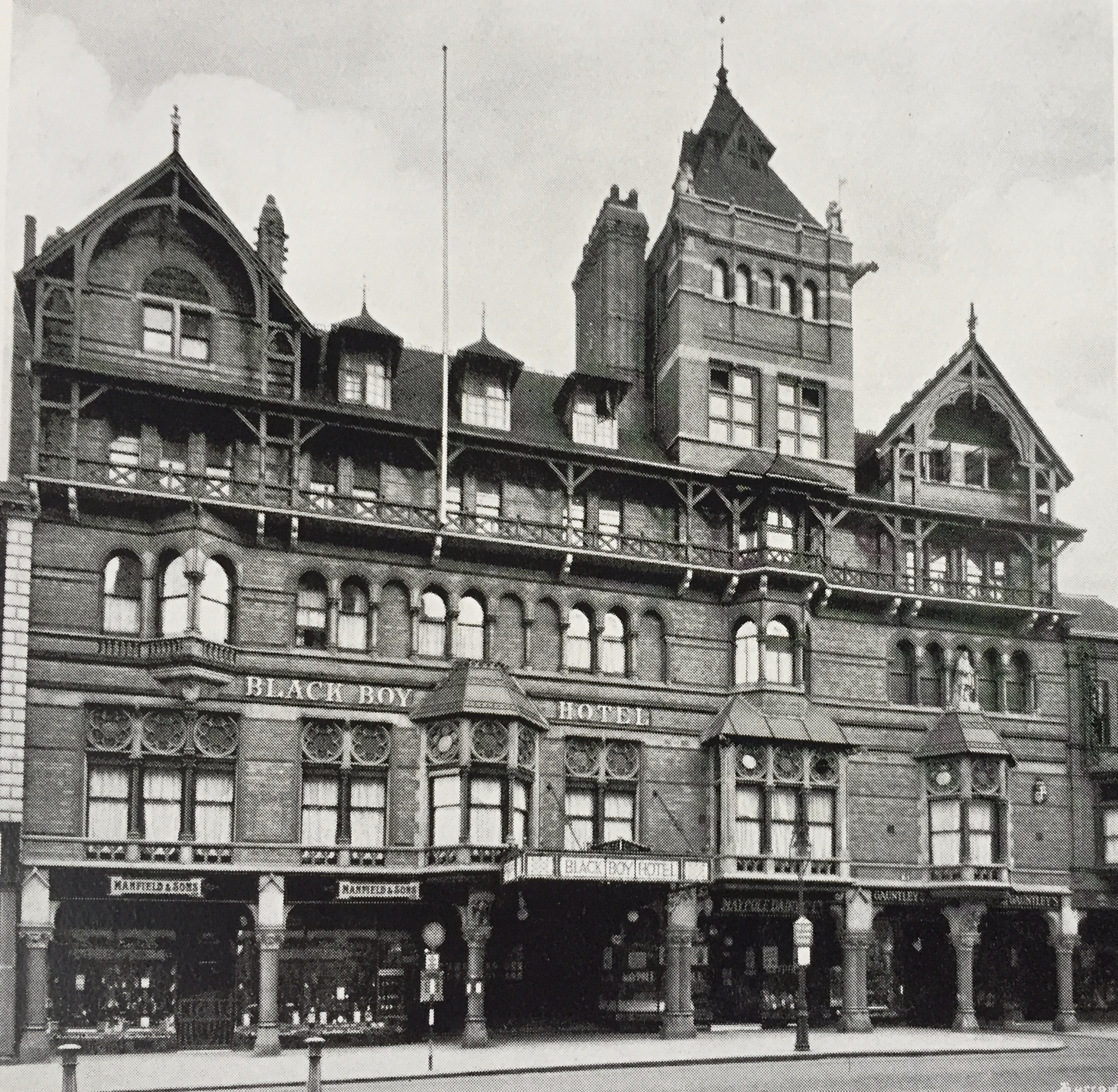 Black Boy Hotel from the Nottingham Official Guidebook 1939